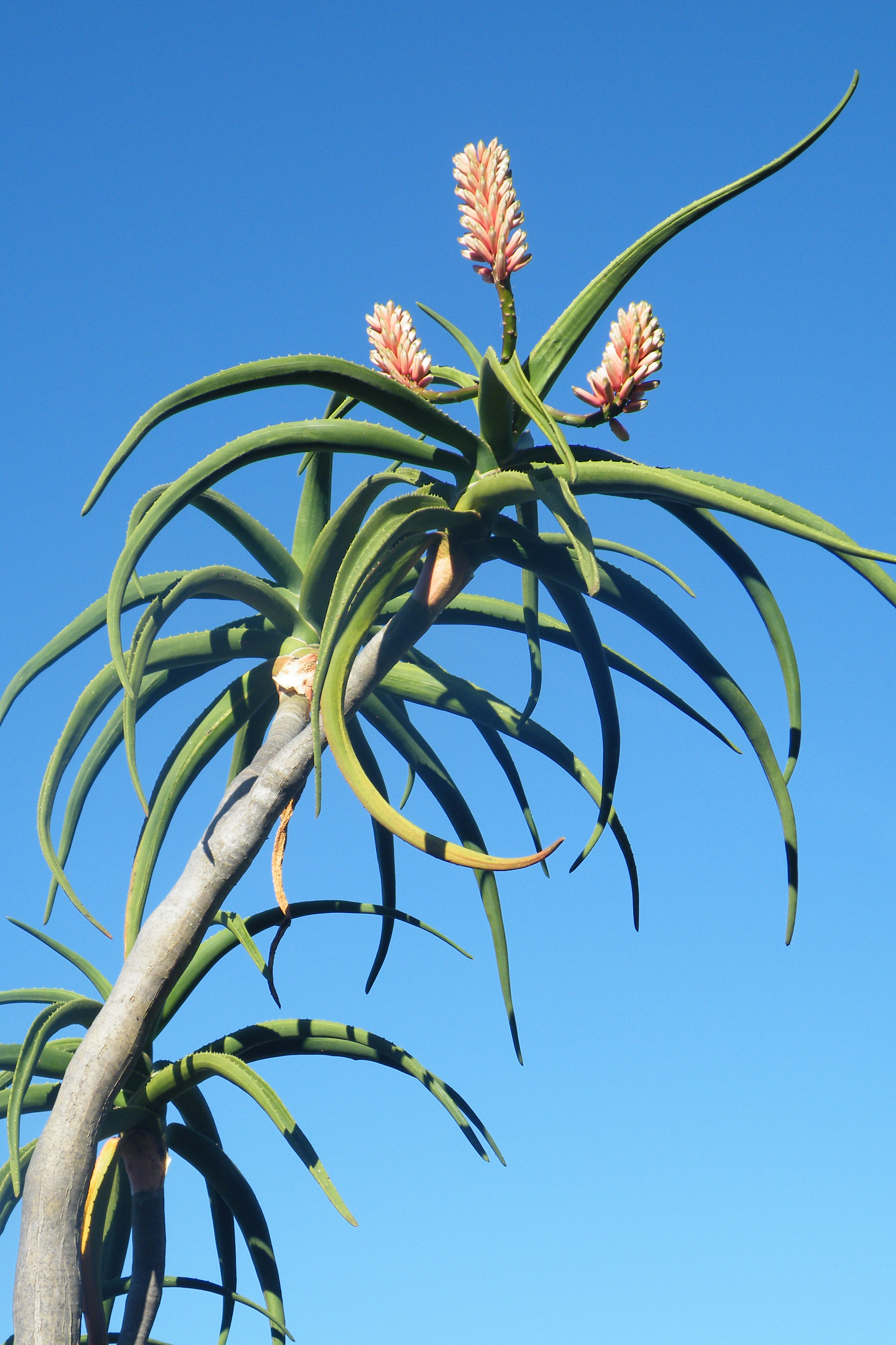 Aloe barberae also known as the tree aloe. Flowers.